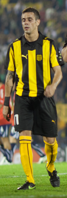 Fabián "Lolo" Estoyanoff playing for Peñarol.